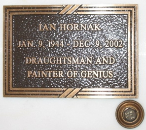 Ian Hornak's memorial tablet on his grave at Forest Lawn Memorial Park in Glendale, California.